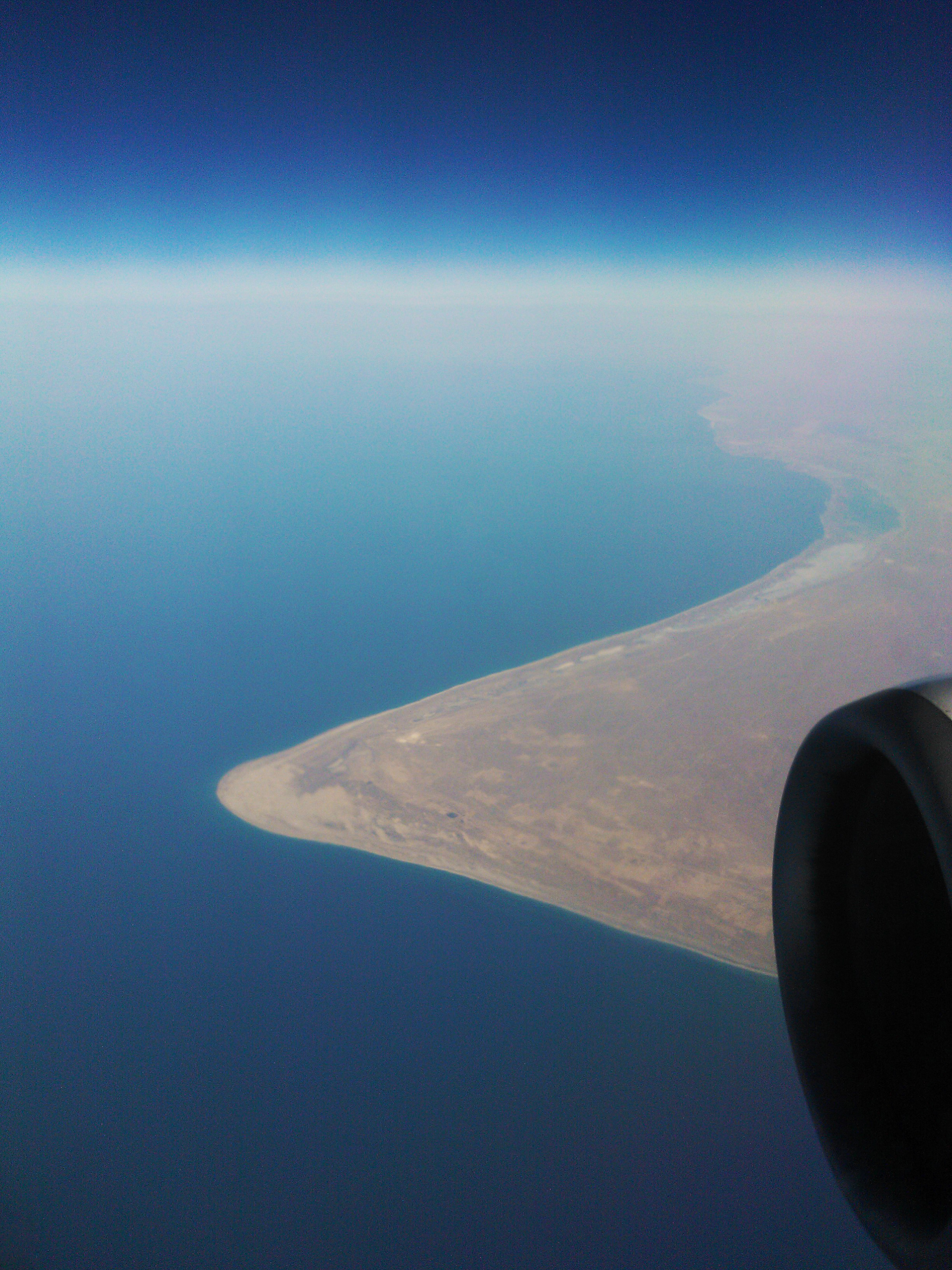 Caspian sea with Kazakhstan coastline.Српски (ћирилица): Каспијско језеро и Казахстанска обала на источној страни језера.